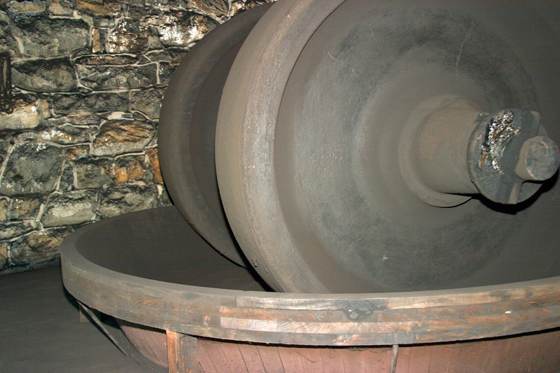 Restored milling equipment at Hagley Museum, Wilmington, Delaware, site of original DuPont gunpowder mills